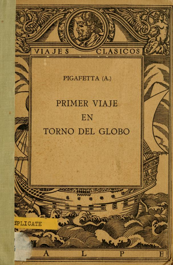 Image of cover of the book Antonio Pigafetta from Primer viaje en torno del globo in 1922 [2]